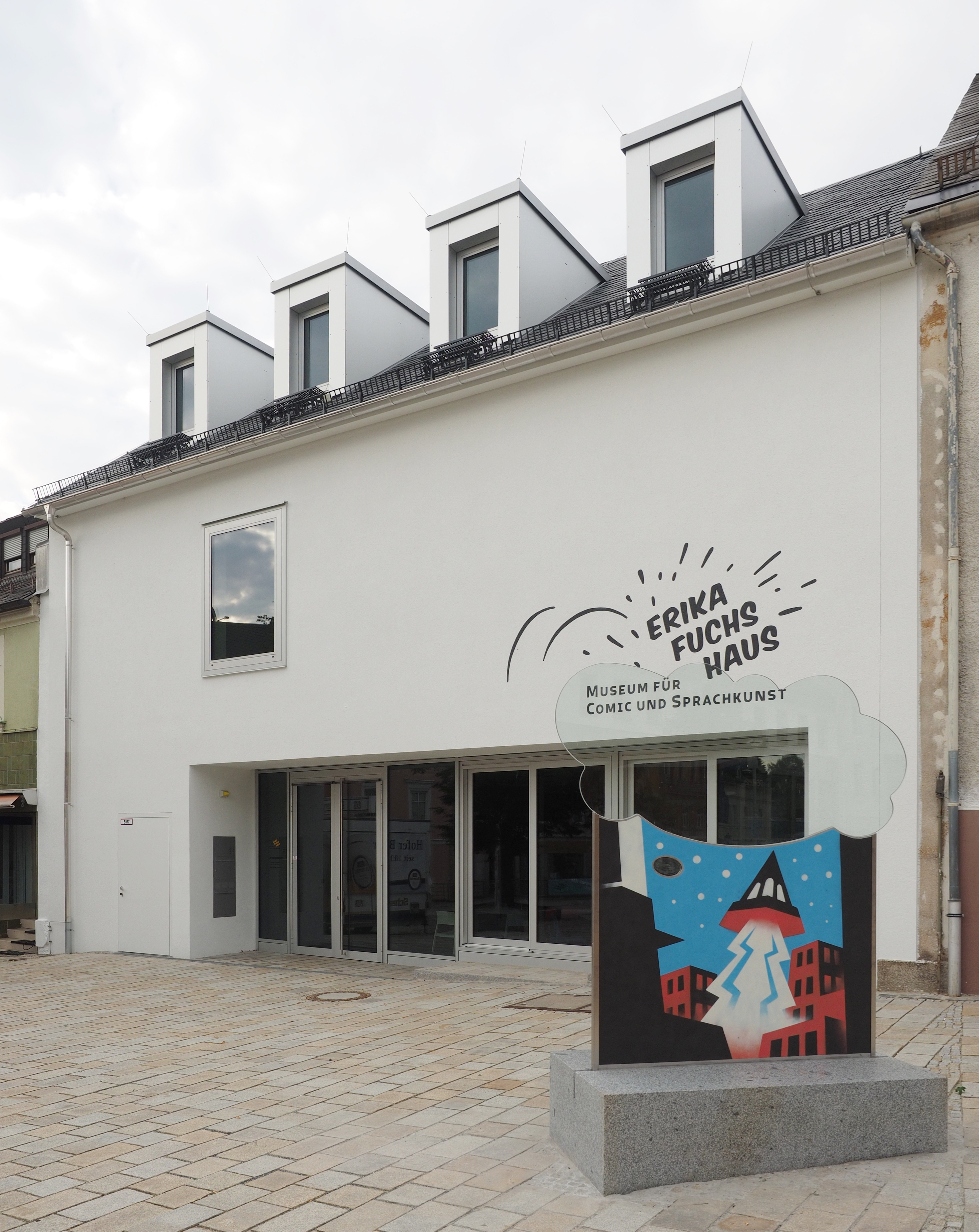 "Erika Fuchs House" museum of comics and language art, Schwarzenbach/Saale, Germany. Erika Fuchs was the leading German translator of Walt Disney comics, coining a new style of language.